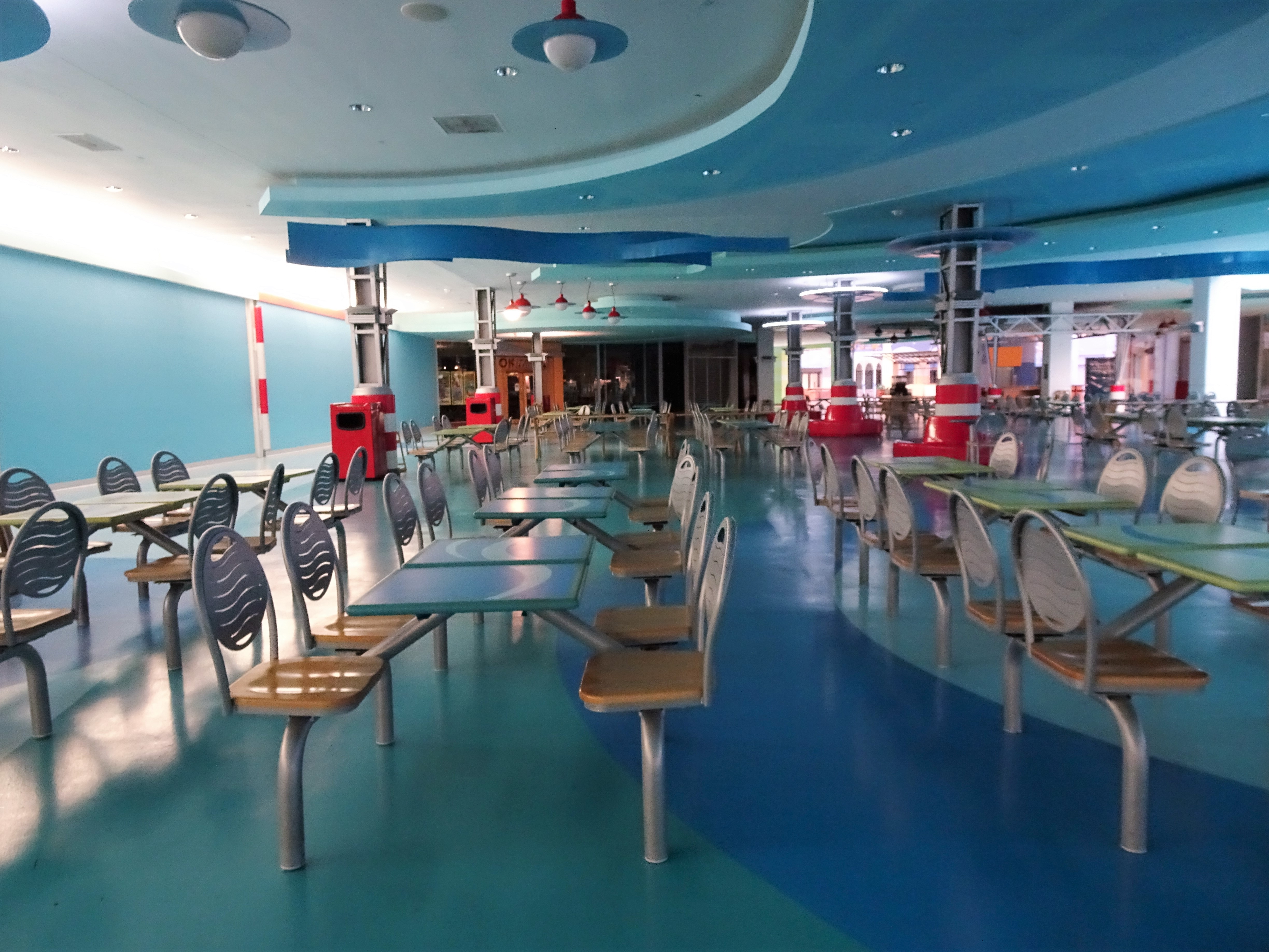 Nautical themed food court, Forest Fair Village Mall, a dead mall, in Cincinnati, Ohio.